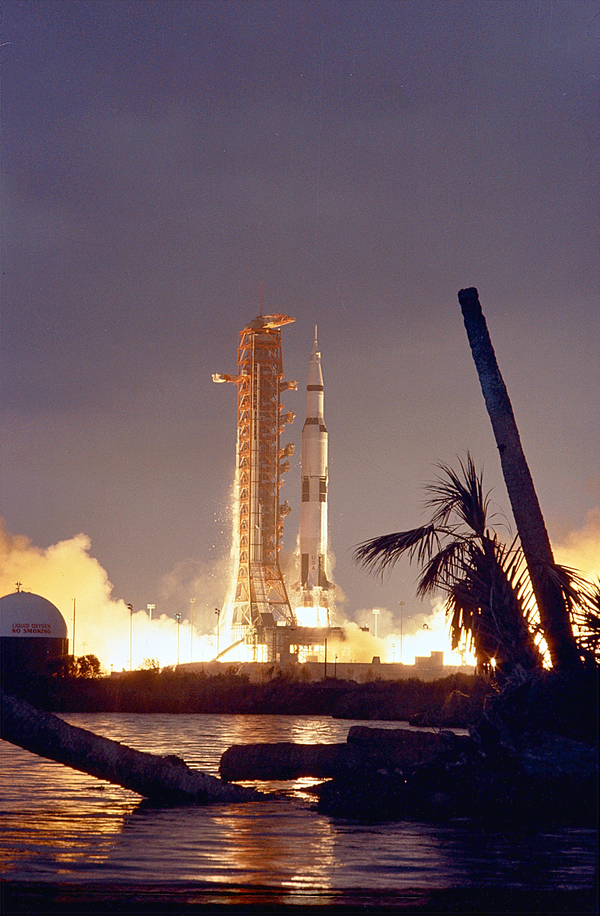 The Apollo 14 Saturn V Space Vehicle, carrying Astronauts Alan B. Shepard, Jr., Stuart A. Roosa, and Edgar D. Mitchell, lifted off at 4:03 p.m. EST on January 31, 1971, from the Kennedy Space Center Launch Complex 39A, to begin the fourth manned lunar landing mission.